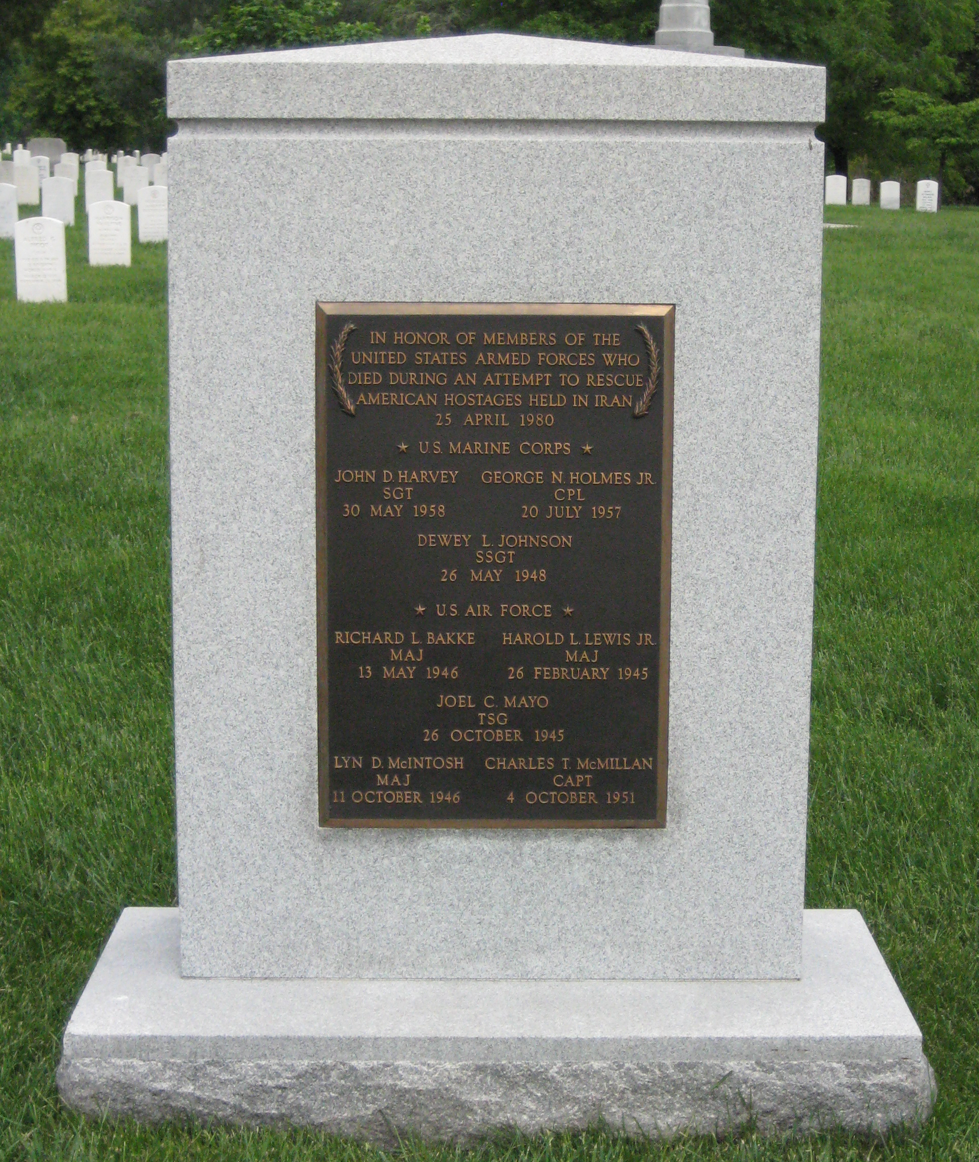 Memorial in Arlington National Cemetery to the men who died during Operation Eagle Claw